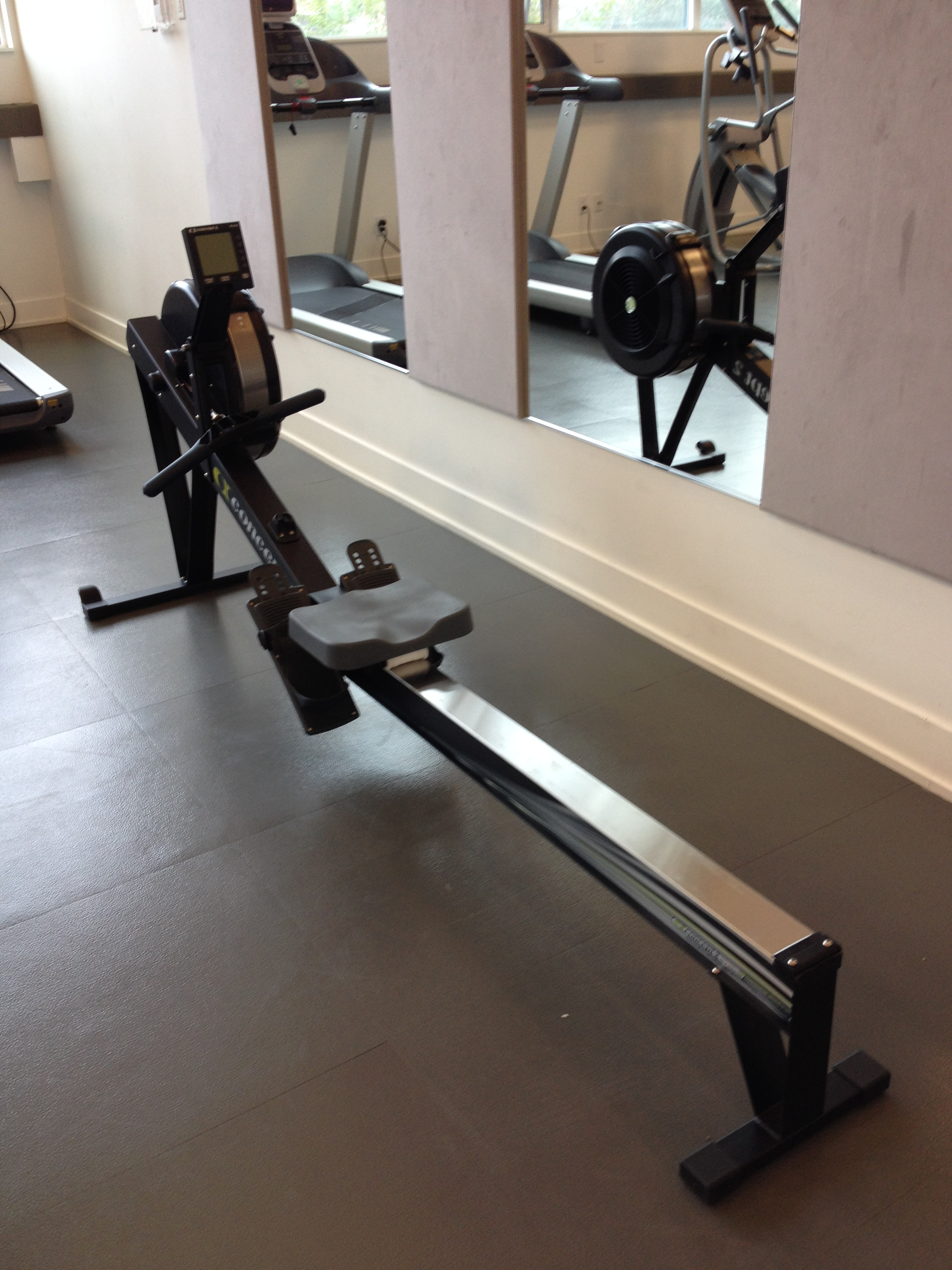 Rowing machine